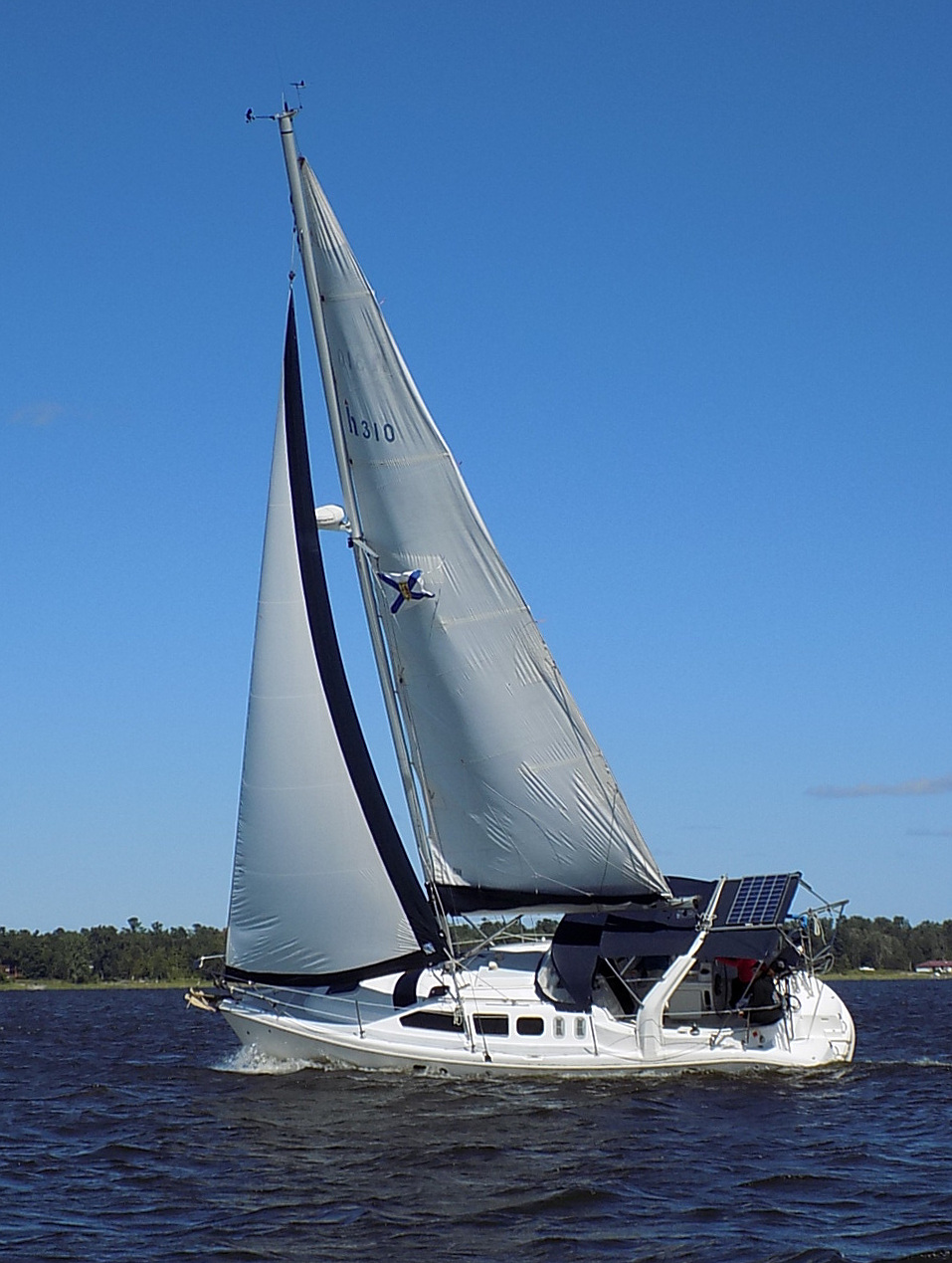 A Hunter 310 sailboat.